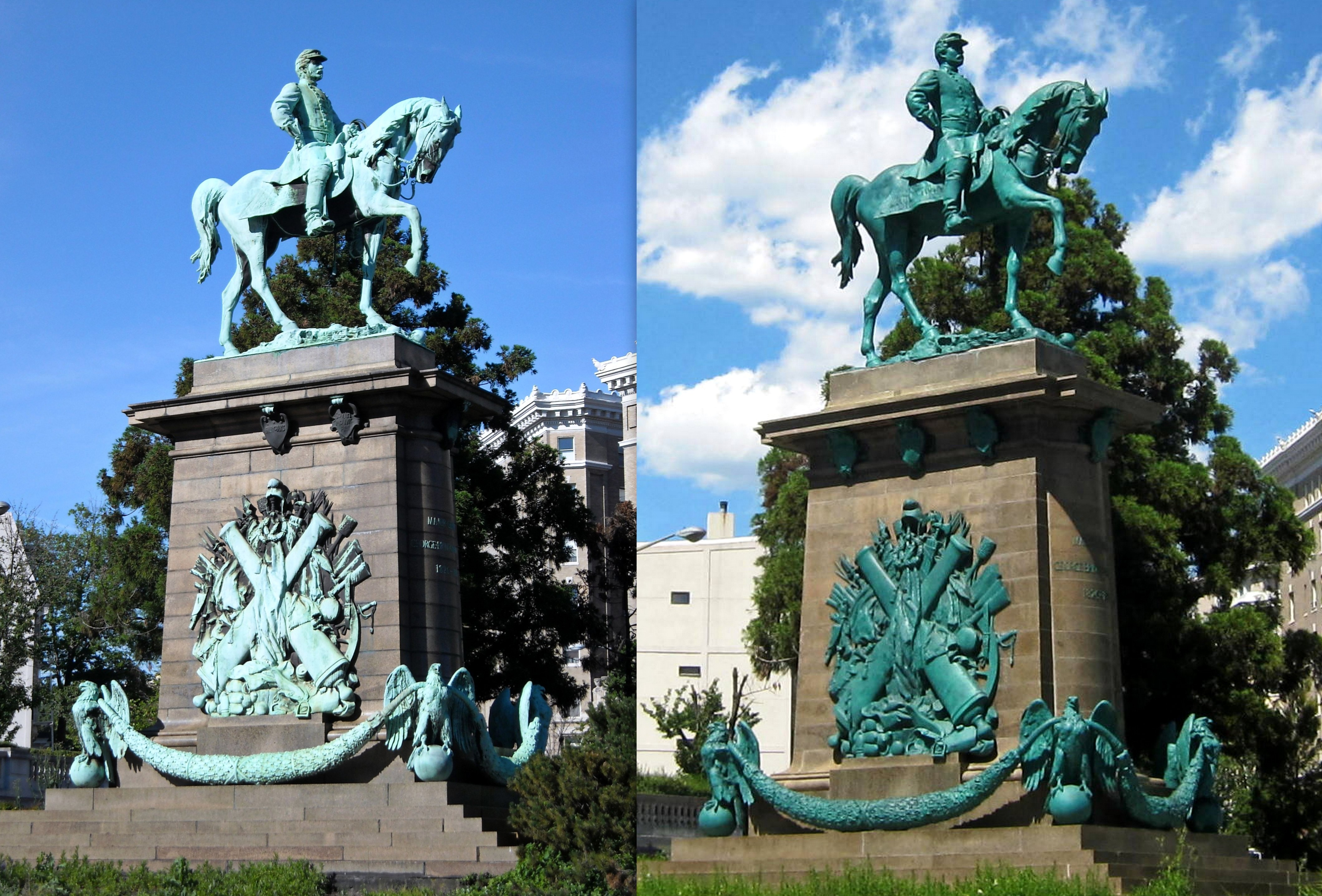 The Major General George B. McClellan monument in Washington, D.C., before and after the 2009 restoration.